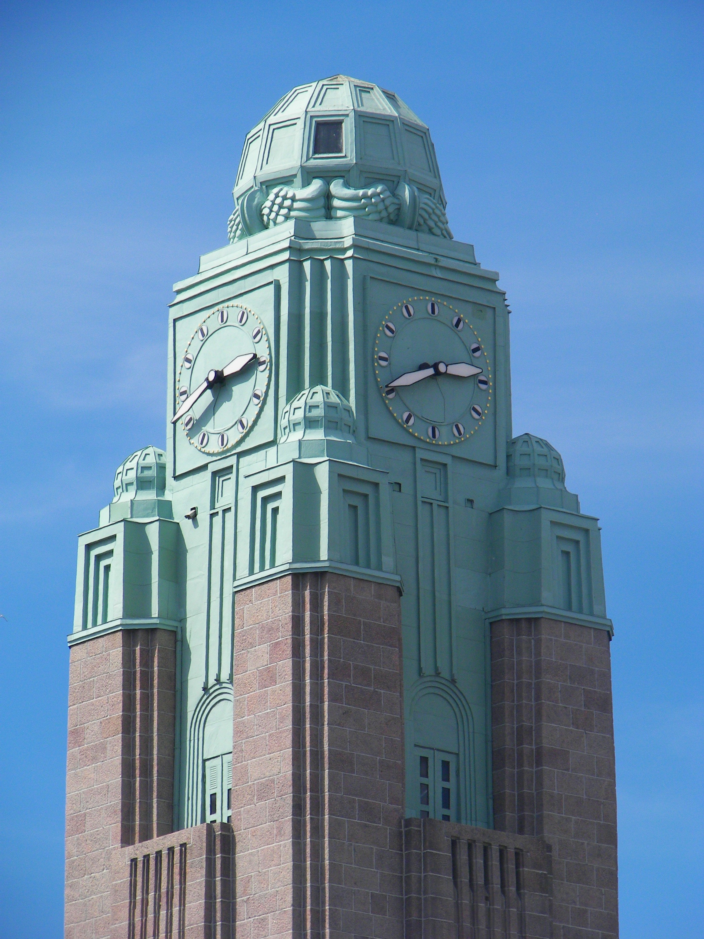 The clock Tower of Helsinki Central railway station